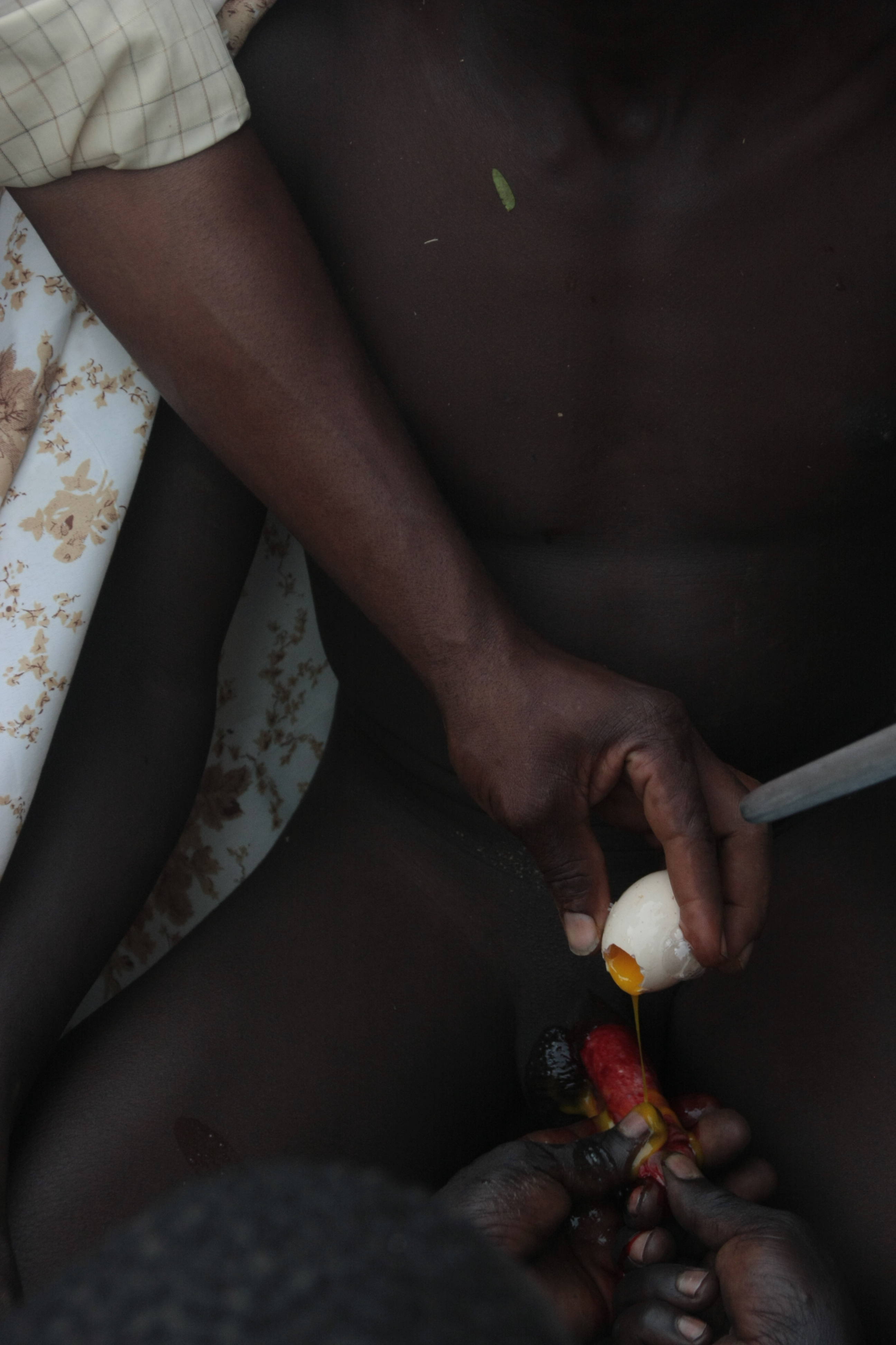 Ägg hälls på den omskurna penisen